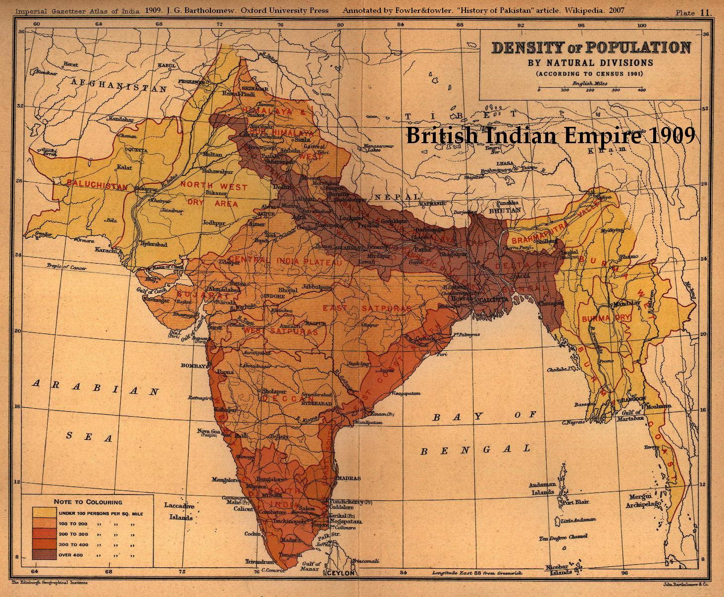 Map "Population Density of the British Indian Empire, 1909"